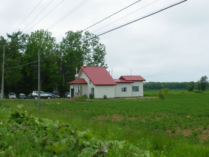 Orthodox Church in Shari, dedicated to Annunciation, belonging to Orthodox Church in Japan.